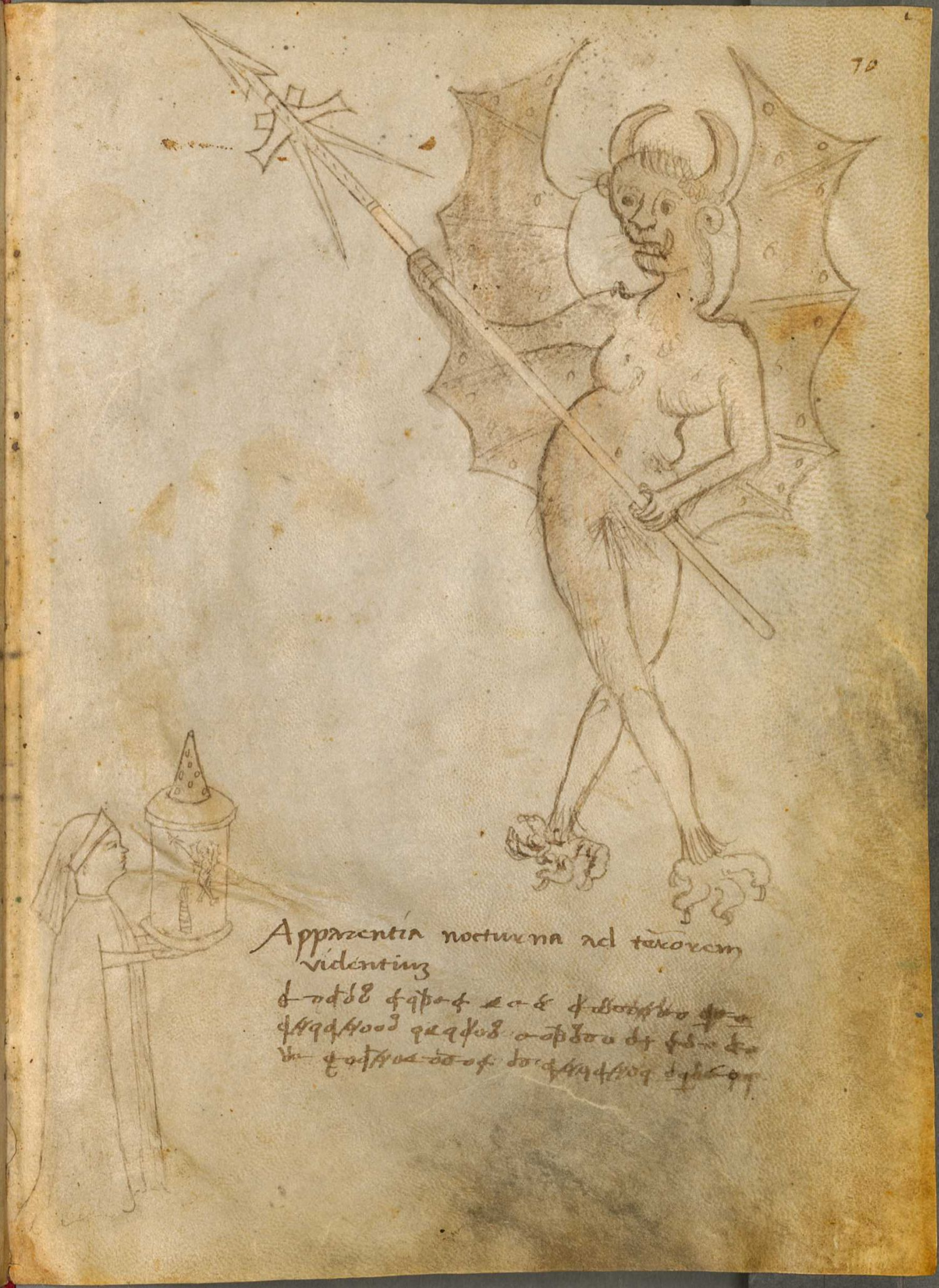 A figure (possibly a priest) uses a lantern to project a winged demon.